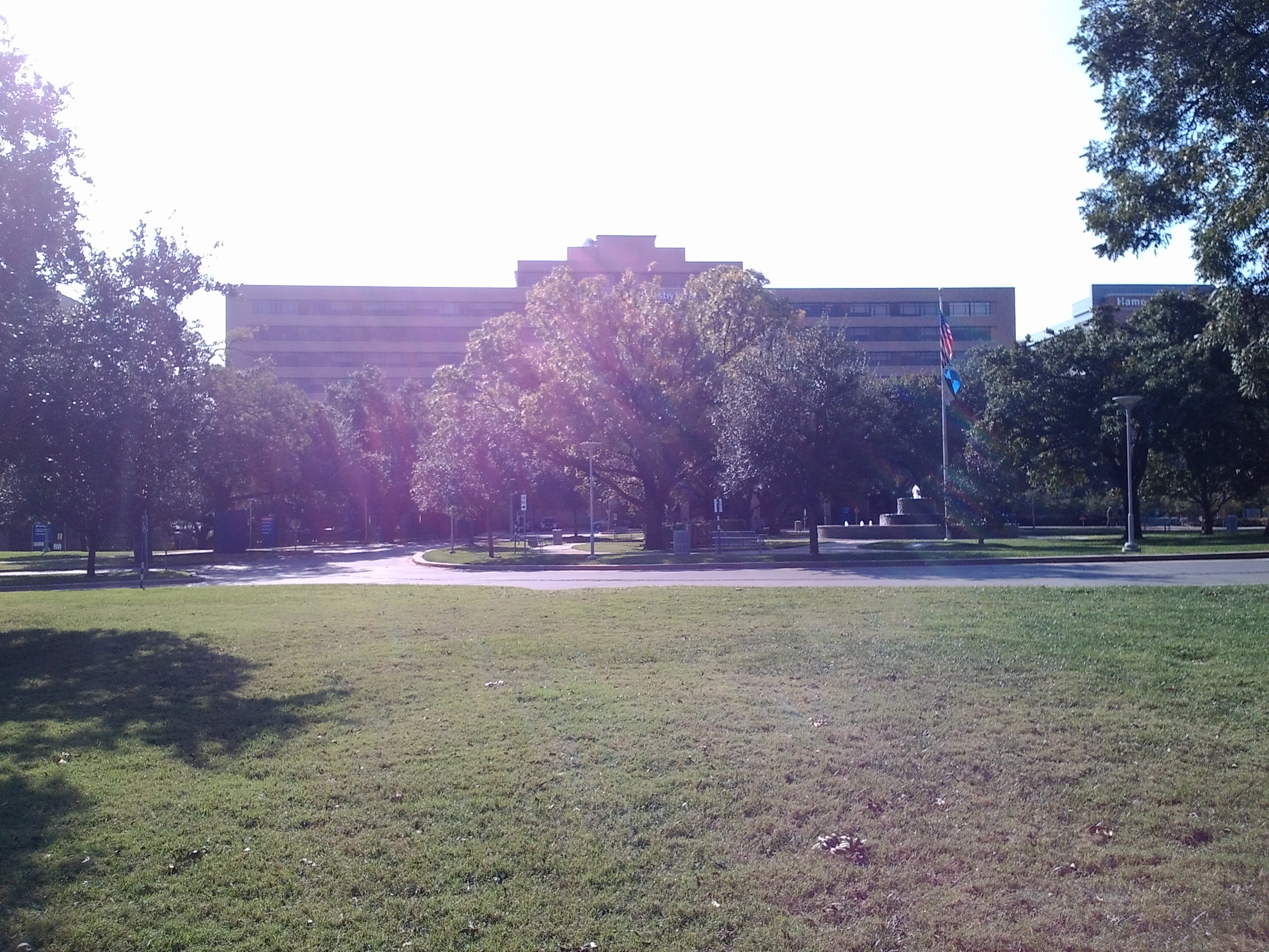 Front Facade of Presbyterian Hospital of Dallas